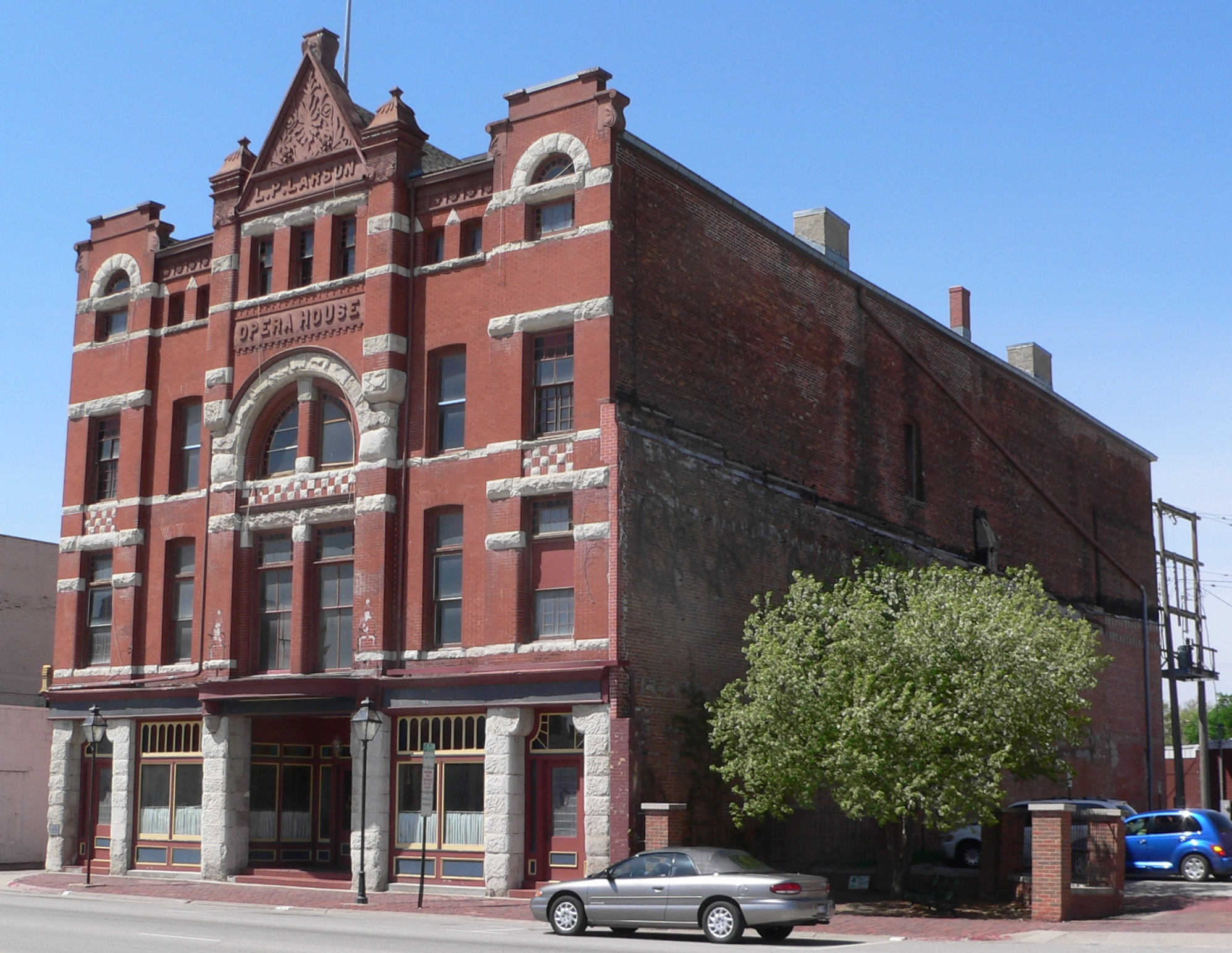 Love-Larson Opera House in Fremont, Nebraska; seen from the northeast. The building was constructed in 1888, and is listed in the National Register of Historic Places.